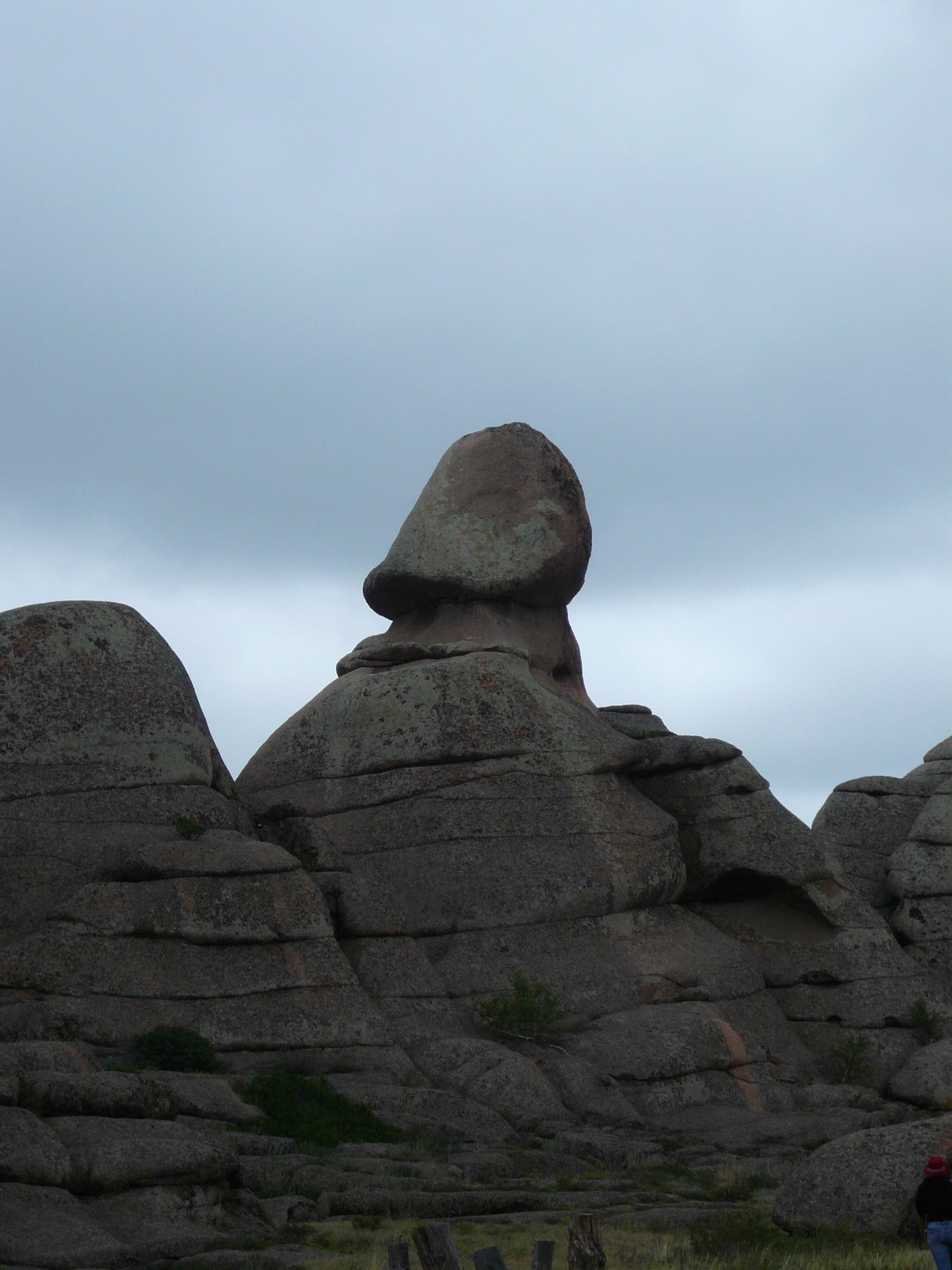 Rock resembling the head of the penis (commonly known as "Masculine dignity")